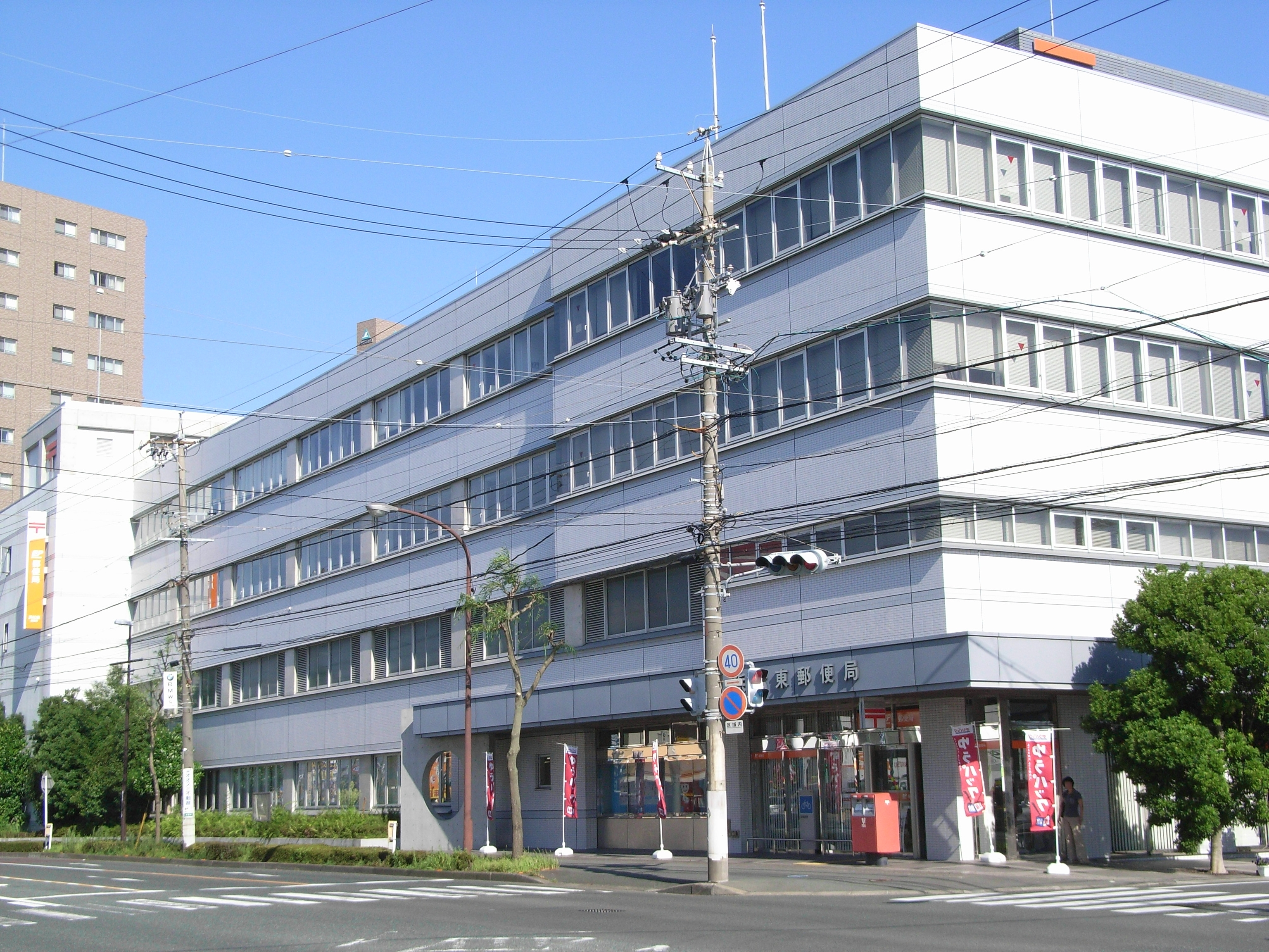 Hamamatsu-higashi Post Office